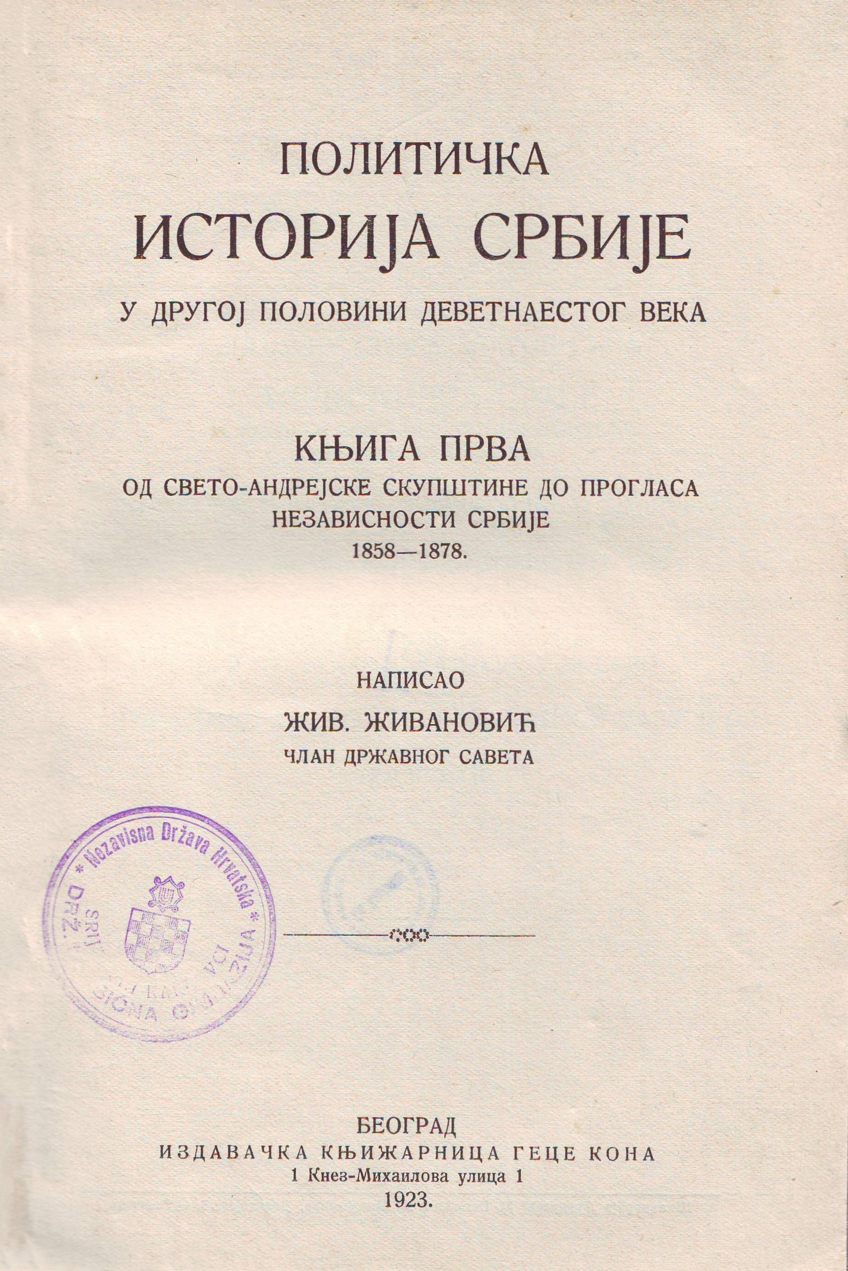 Cover of the first volume of Politička istorija Srbije u drugoj polovini devetnaestog veka (1923) by Živan Živanović. Srpski (latinica): Naslovna strana prve knjige Političke istorije Srbije u drugoj polovini devetnaestog veka (1923) Živana Živanovića.